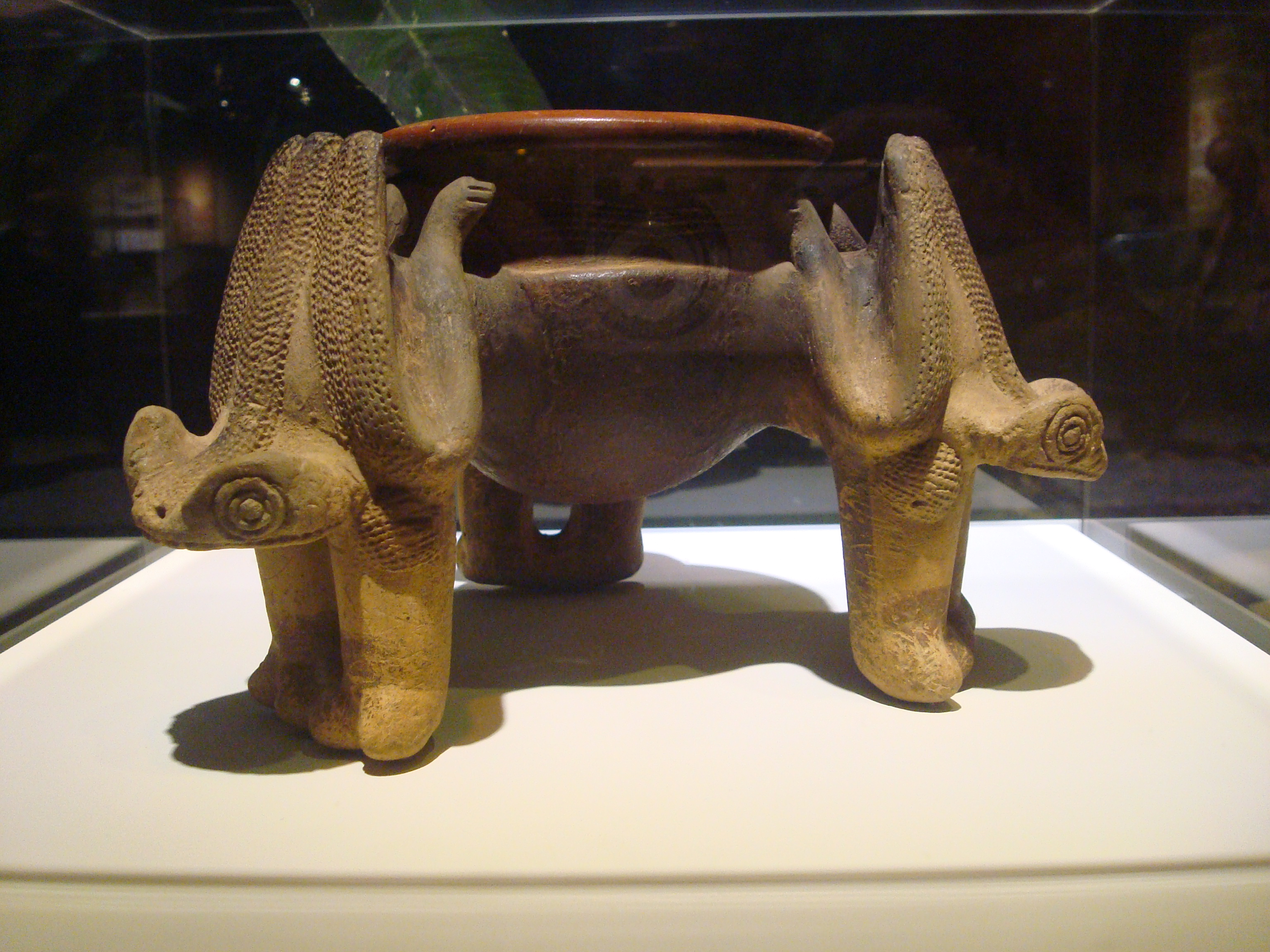 Oval trypod vase from Central Region of Costa Rica. El Bosque Phase, 300 BC - 300 AD, toad motive.